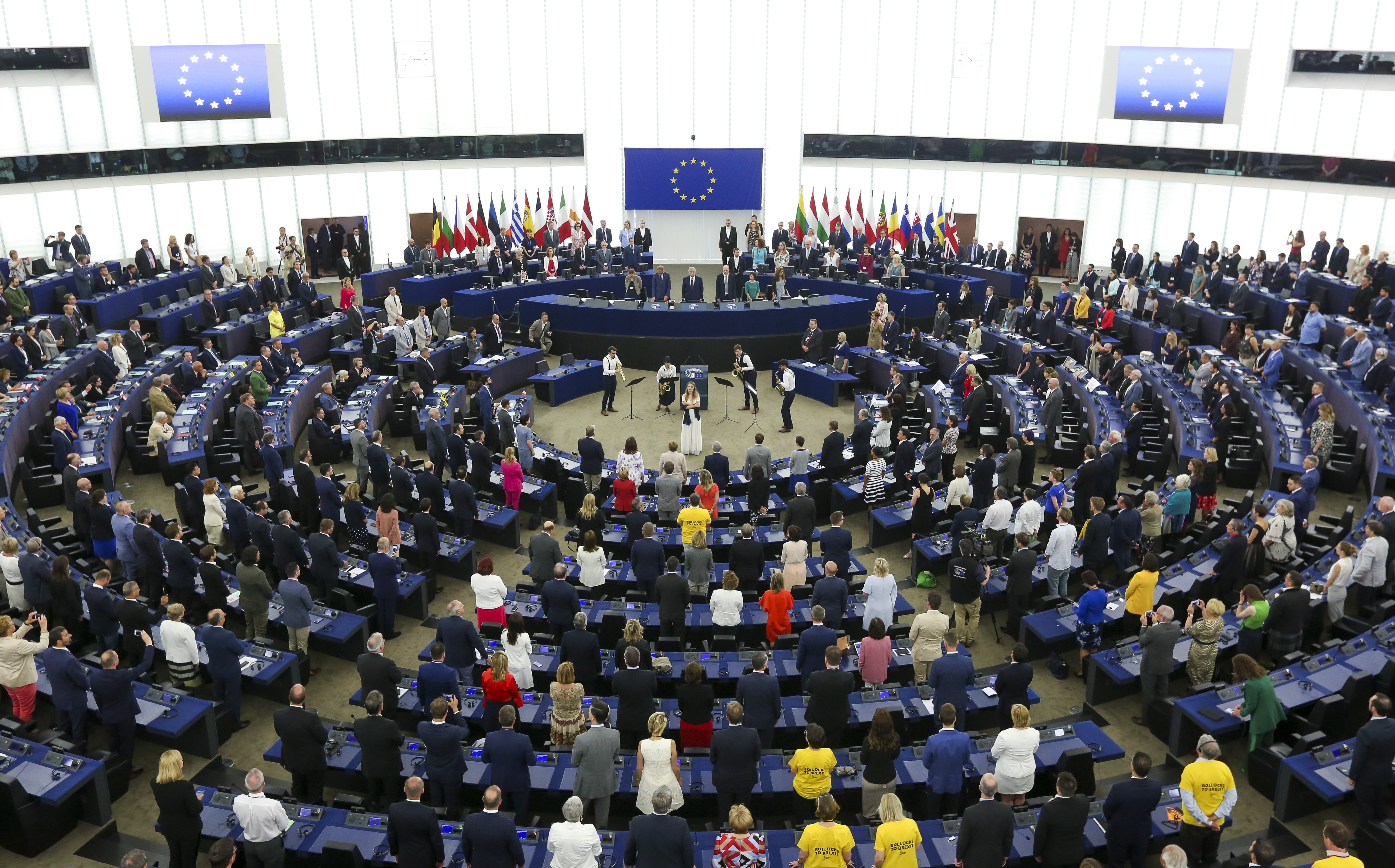 Read more: 9th European Parliament since first direct elections in 1979 starts today MEPs elected from 190 political parties in 28 member states 61% new MEPs 60% men, 40% women This photo is free to use under Creative Commons license CC-BY-4.0 and must be credited: "CC-BY-4.0: © European Union 2019 – Source: EP". No model release form if applicable. For bigger HR files please contact: webcom-flickr(AT)